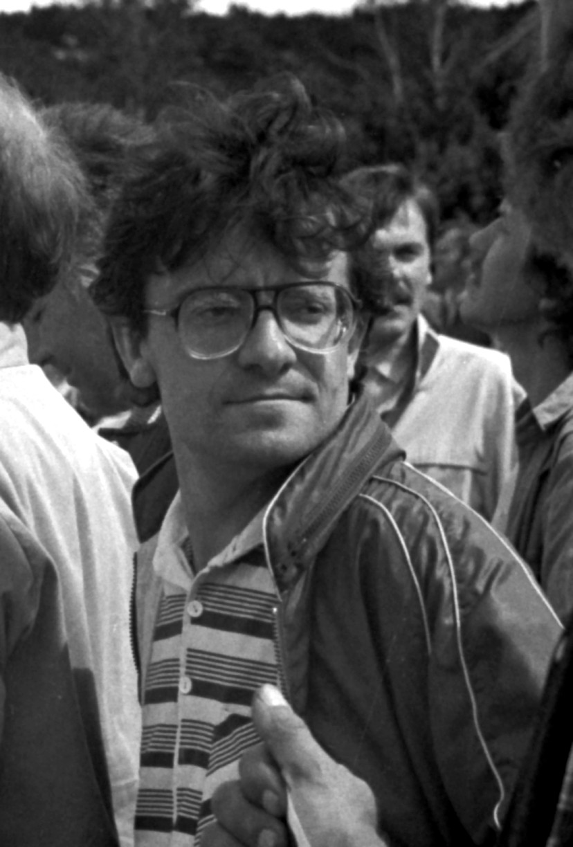 Vytautas Radžvilas, Juodkrantė, 1989, Lithuania